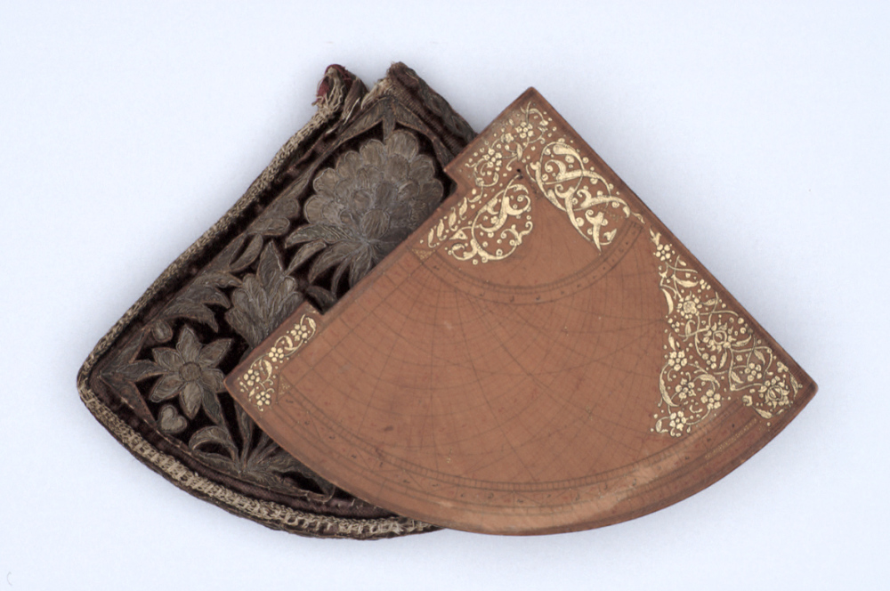 Astrolabe-Quadrant, item 15598 in the collection of the Museum of the History of Science, Oxford